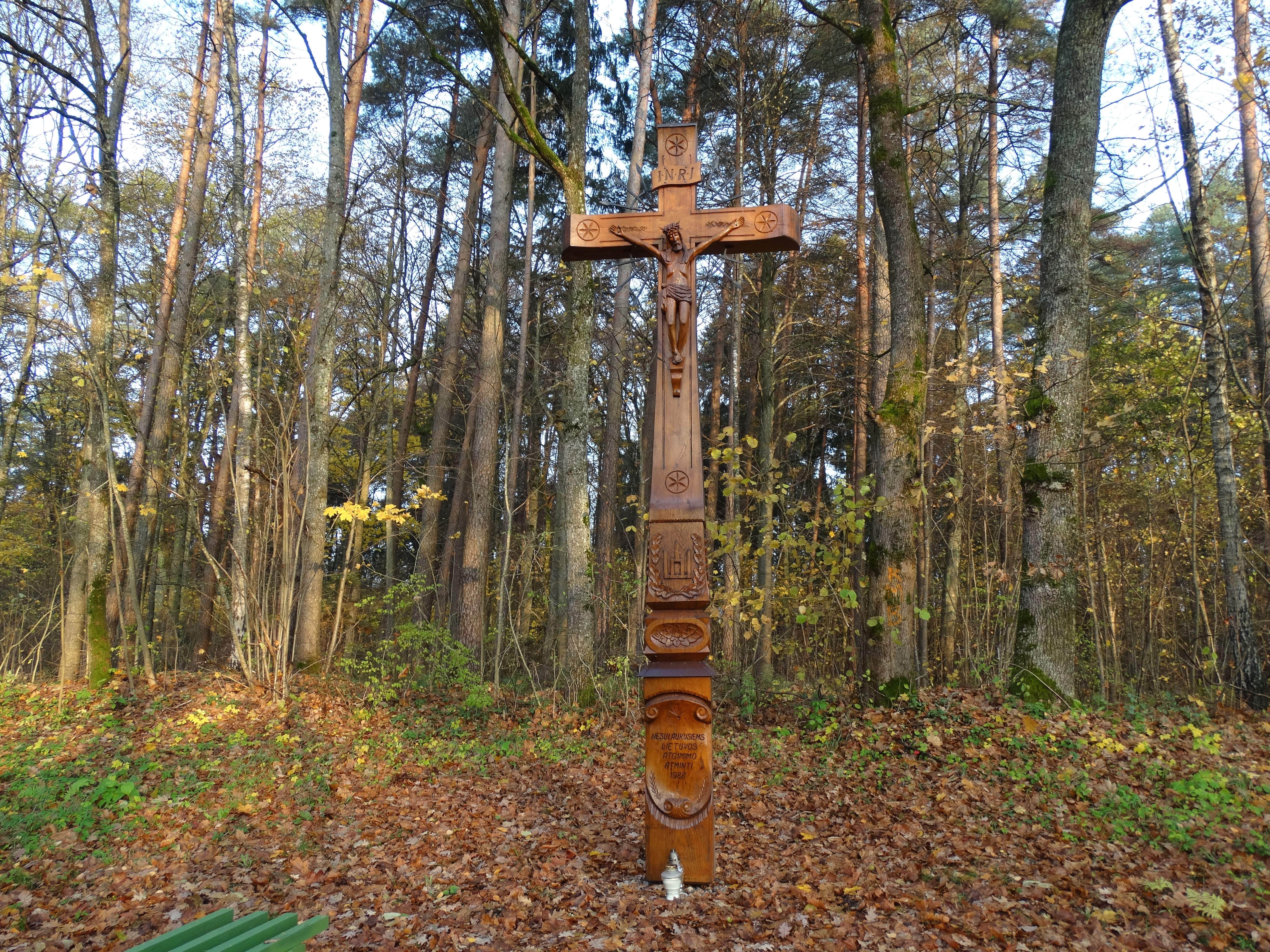 Kiduliai, Šakiai District, Lithuania